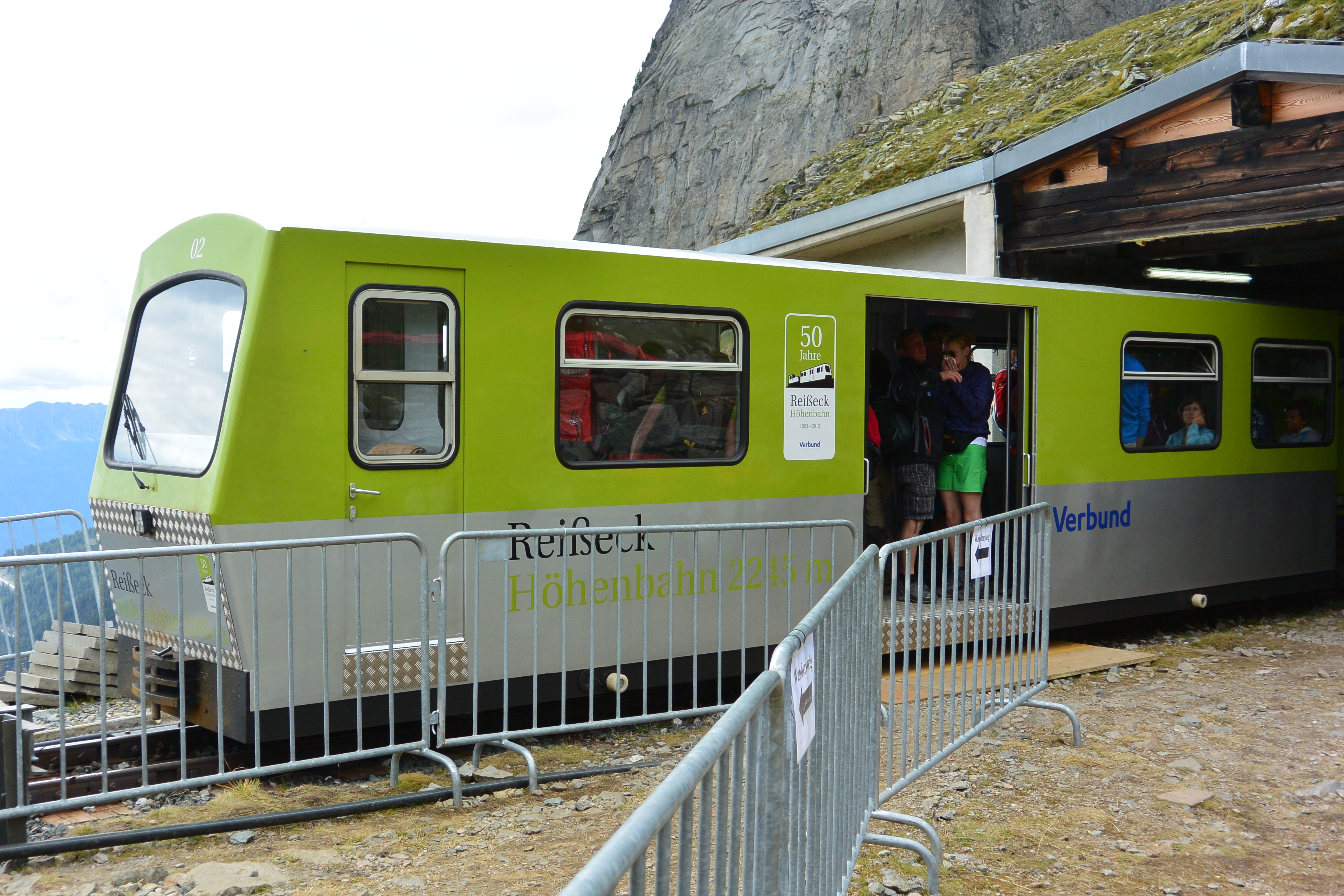 Mountain train "Reißeck-Höhenbahn" in the community of Reißeck